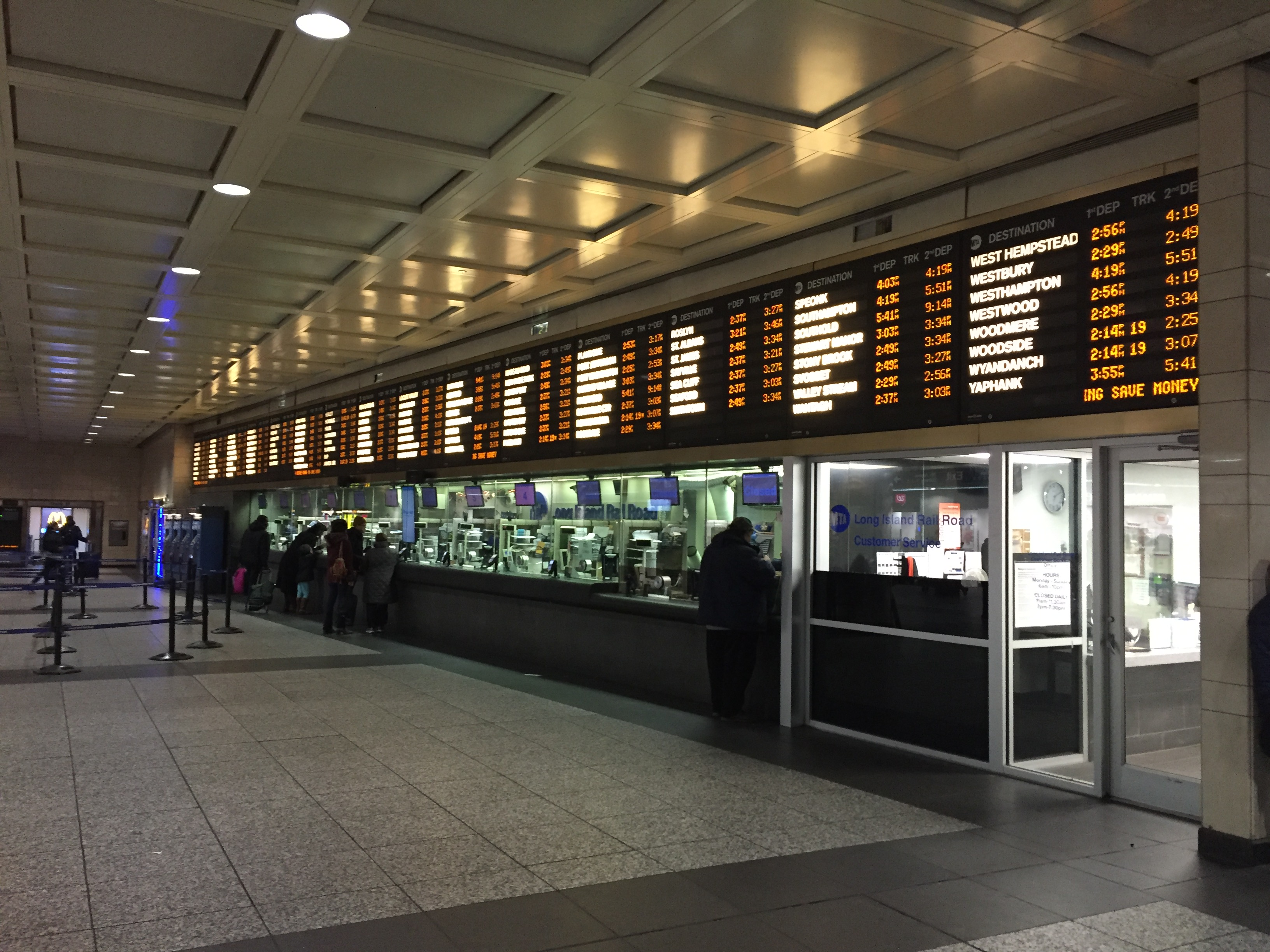 Ticket counters of the Long Island Rail Road in Pennsylvania Station, New York City in 2017